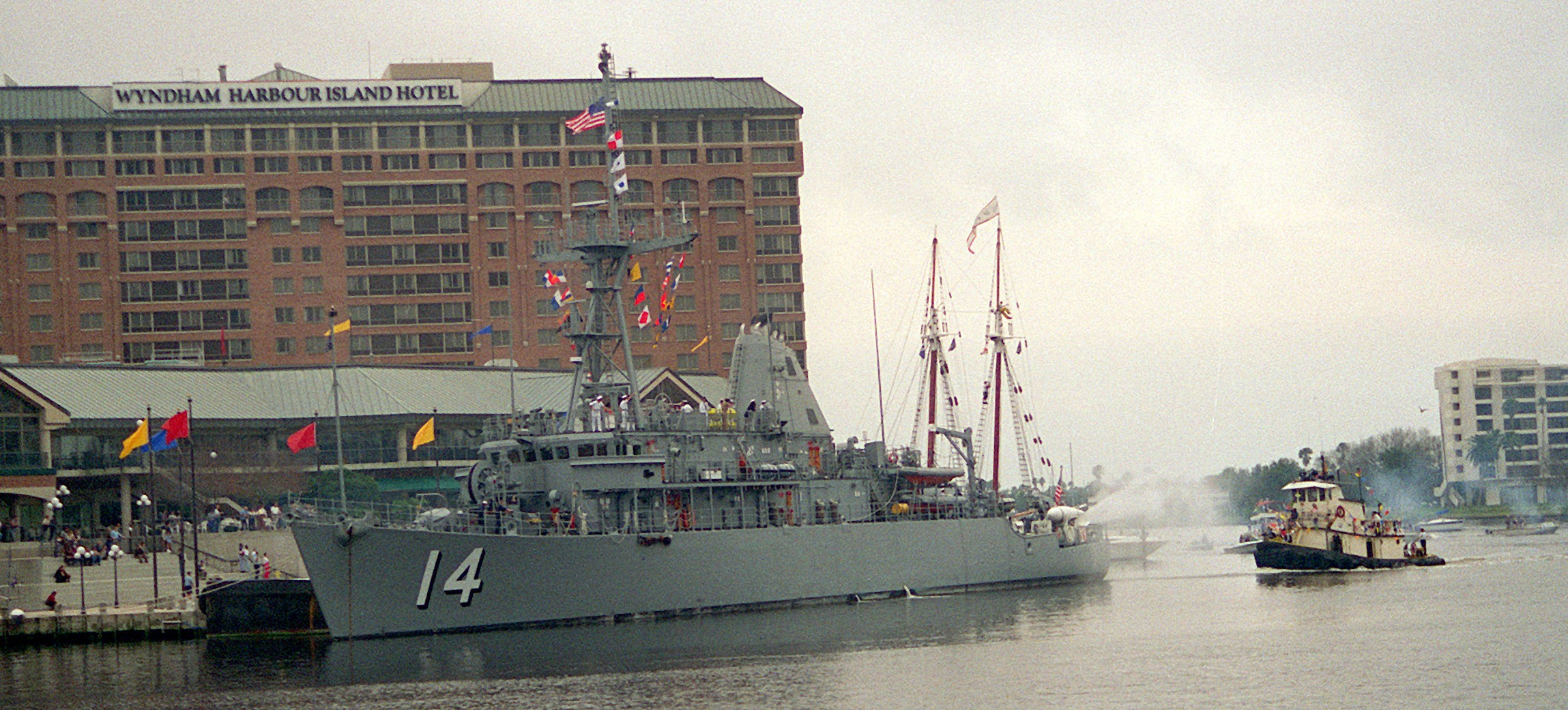 ID: DN-SC-95-01357 Service Depicted: Navy A port bow view of the mine countermeasures ship USS Chief (MCM-14) under "attack" by the S.S. Ybor (actually the tugboat JANET K.) as the mock pirate invasion of Tampa by the Ybor Navy begins as part of the annual Gasparilla celebration. Location: TAMPA, FLORIDA (FL) UNITED STATES OF AMERICA (USA) Camera Operator